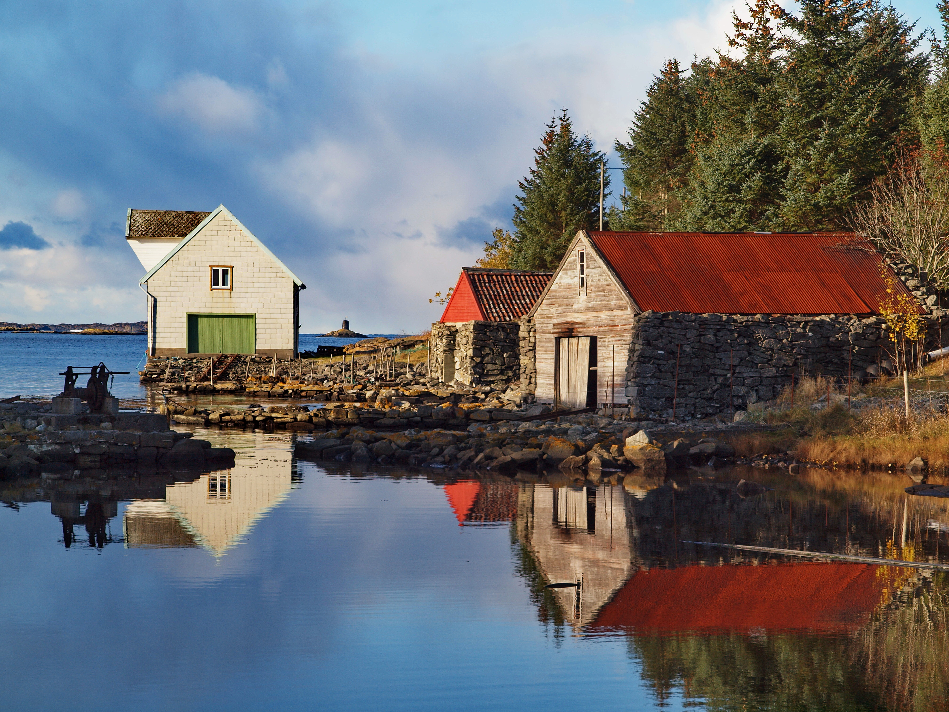 Byrkjenes, Gulen municipality, Sogn og Fjordane county, Norway.